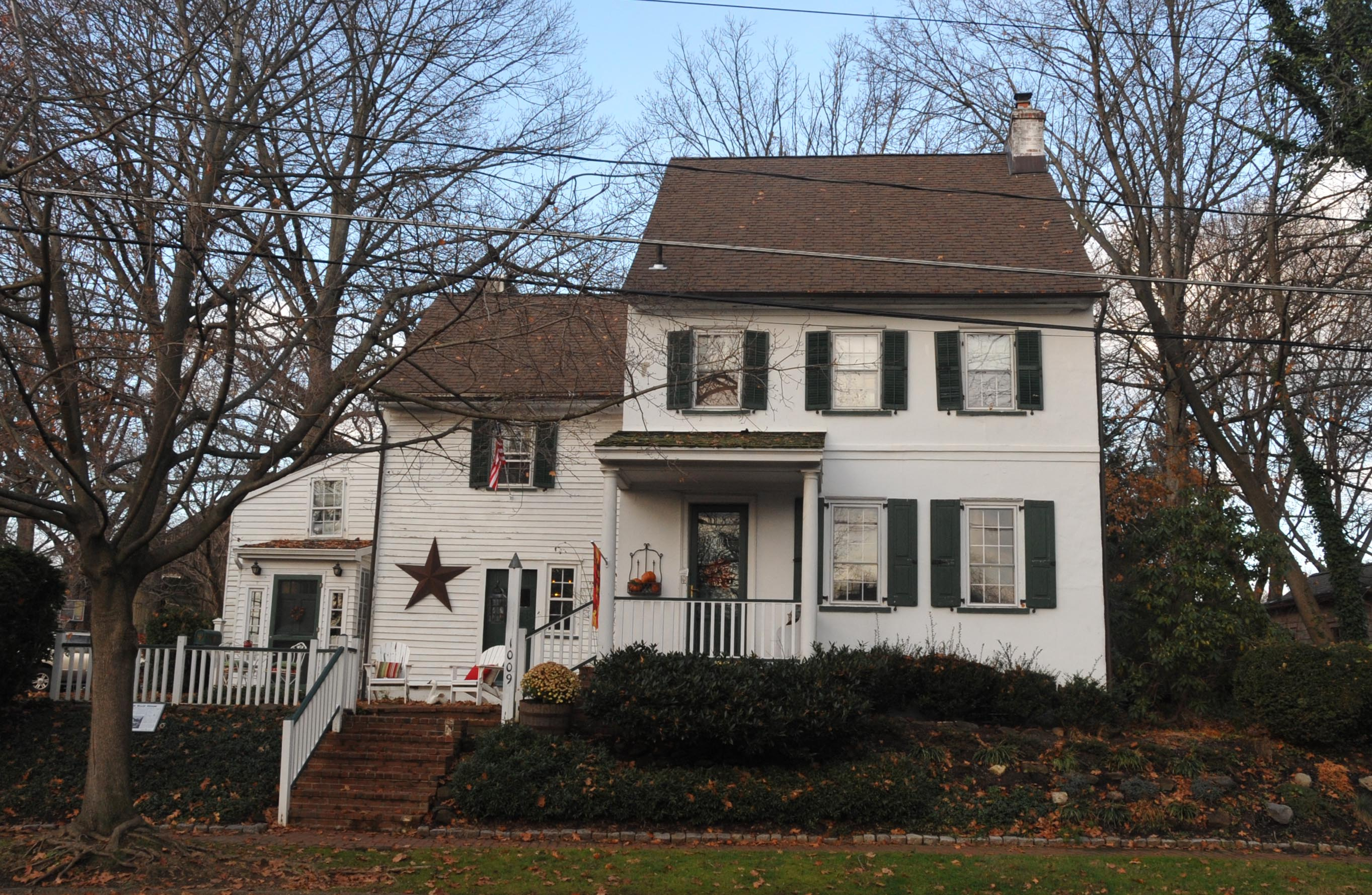 CENTRAL PORTION BUILT IN 1760 FOR COL. JOSEPH ELLIS, A LOCAL REVOLUTIONARY WAR HERO. THE RIGHT SIDE WAS ADDED LATER. THERE IS A REVOLUTIONARY WAR FLAG ON THE OLDEST PORTION WITH THE STAR